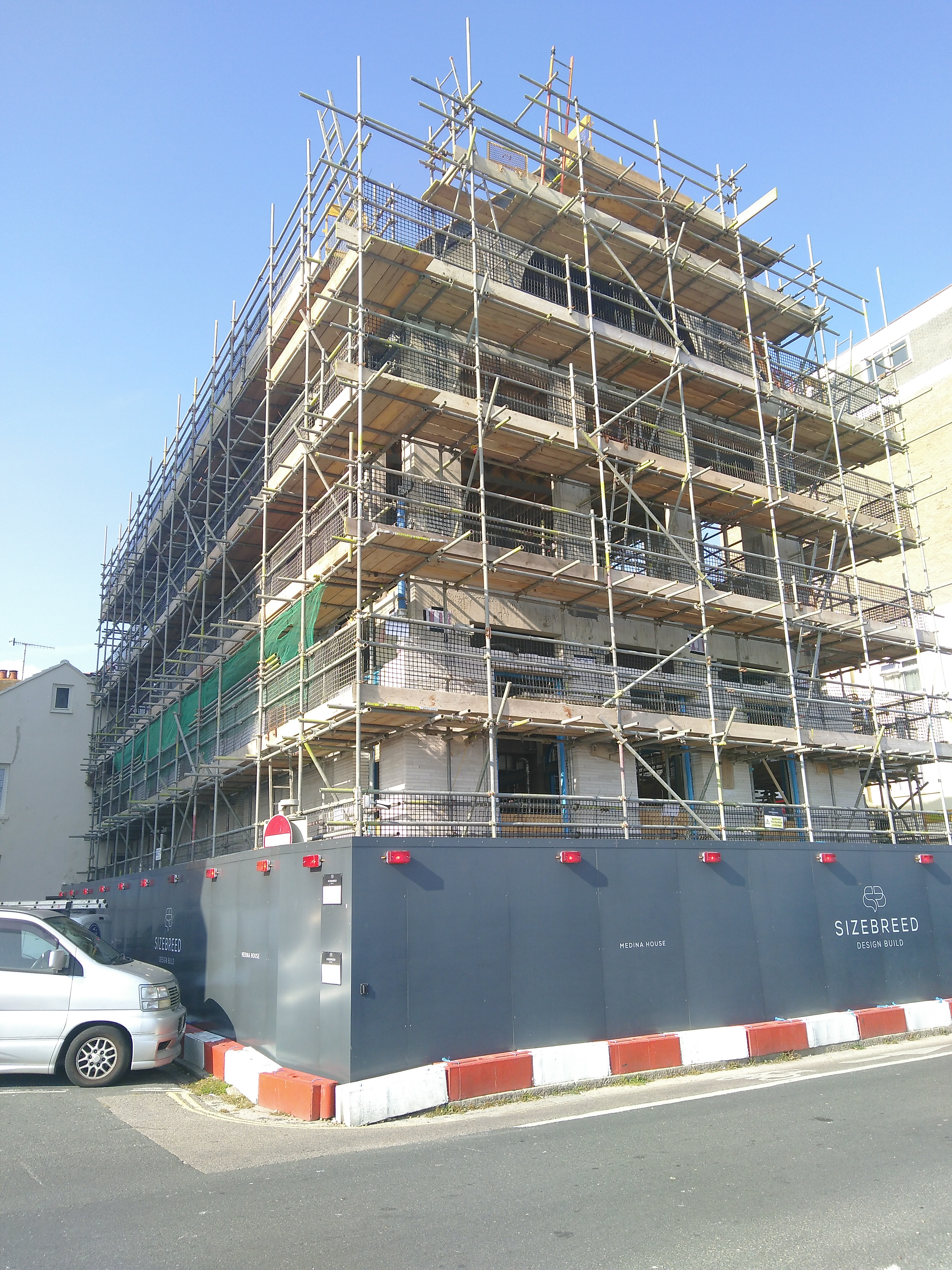 Medina House is currently being rebuilt in 2019 after demolition